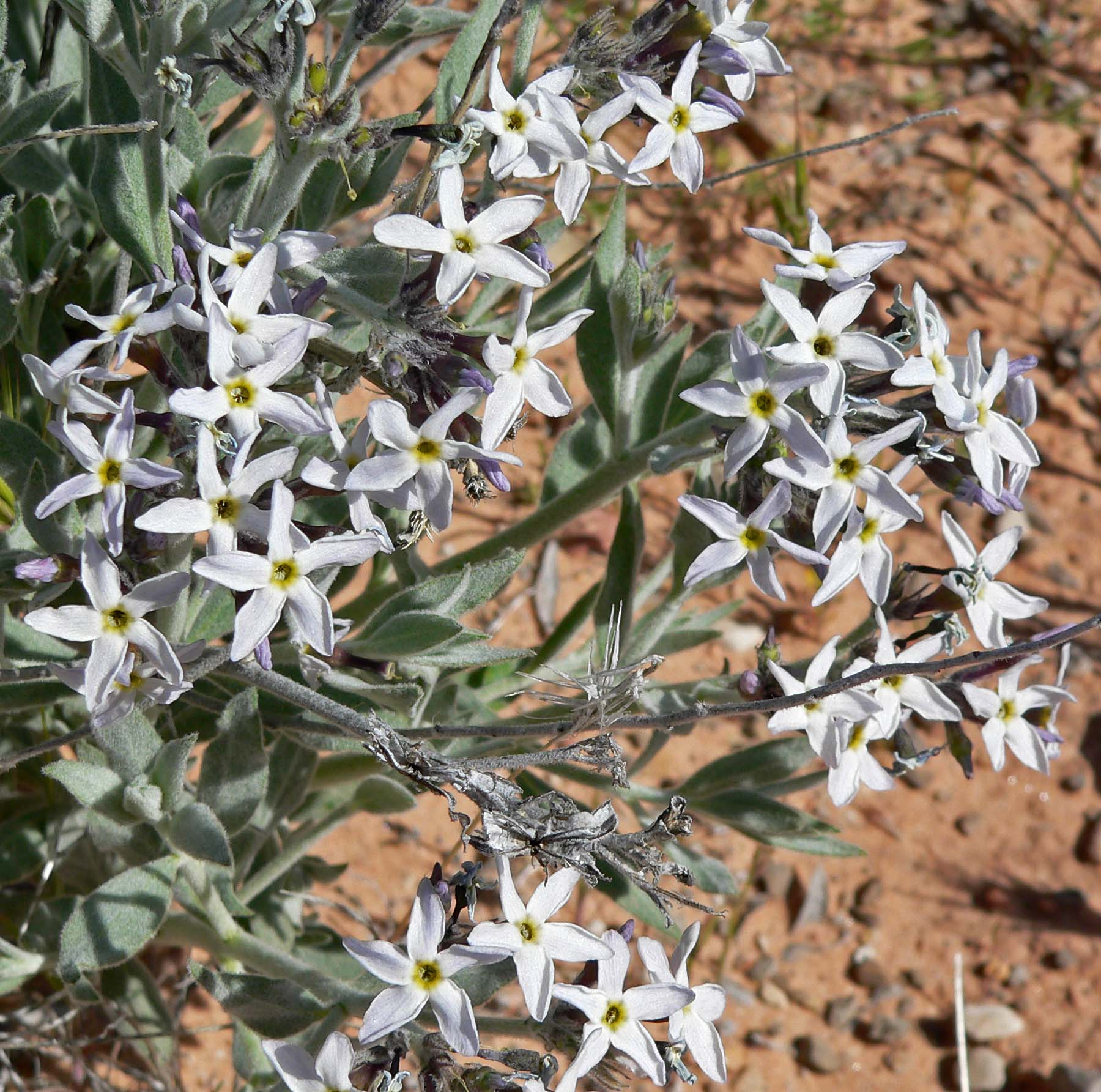 Photo of Amsonia tomentosa in Red Rock Canyon near Las Vegas, Nevada